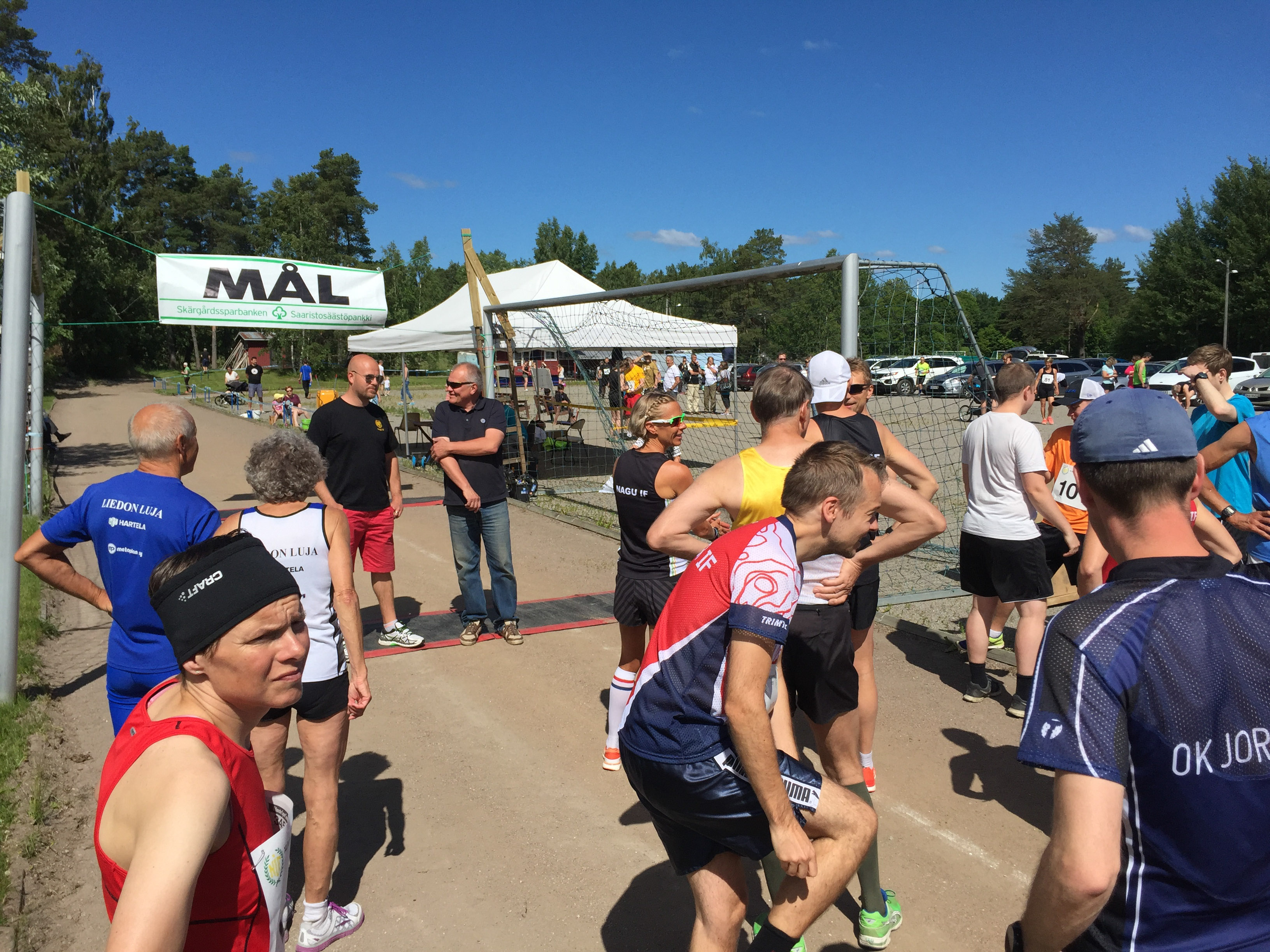 Start at Möviken runt